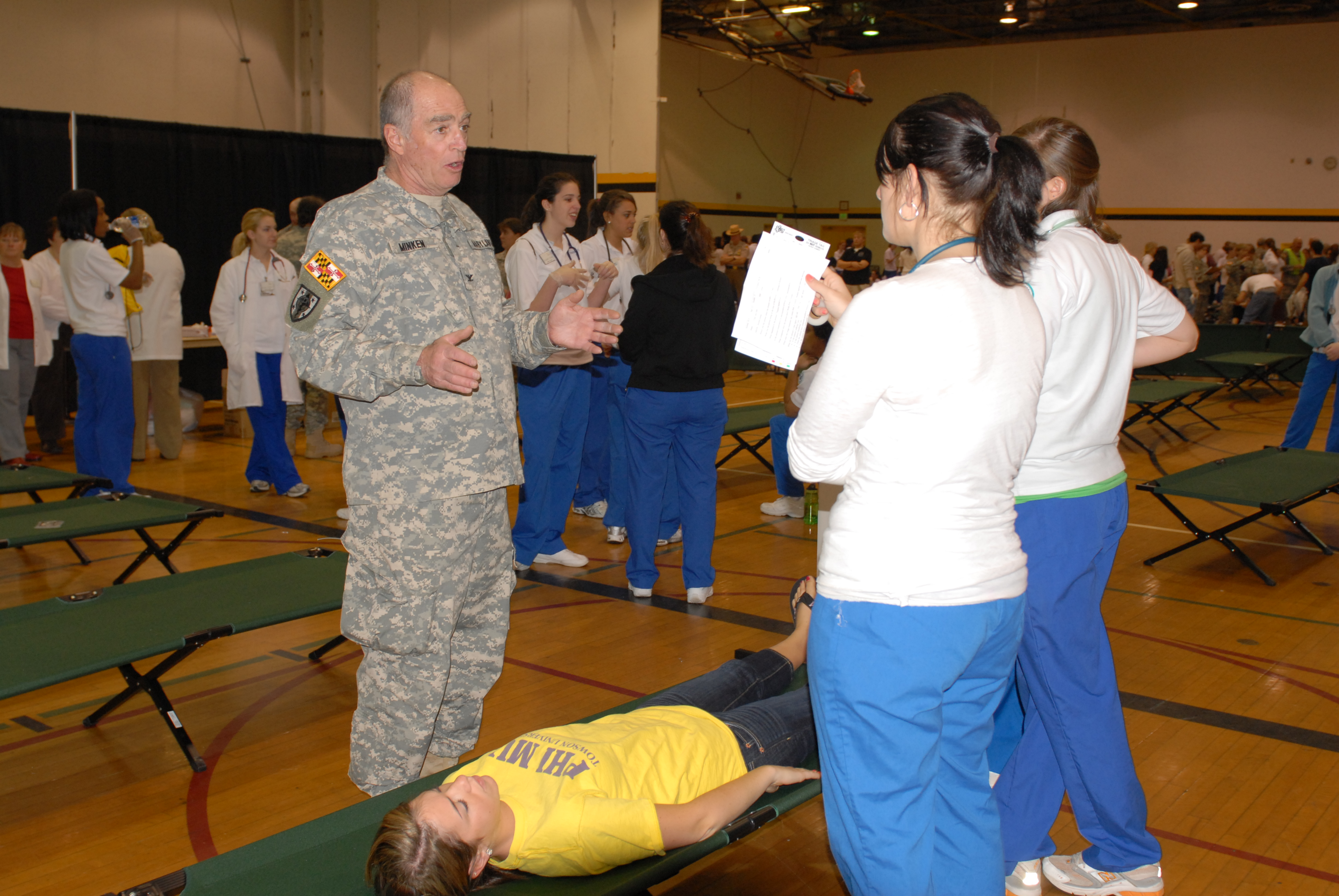 Nearly 75 members of the Maryland Defense Force participated in a major multi-agency disaster exercise at Towson University on April 14, 2010, alongside Maryland Army National Guard Soldiers from the state medical detachment and the 224th Area Support Medical Company. The exercise involved nearly 1000 participants, including several hundred Towson University students who volunteered to be “casualties” and more than 300 Towson University nursing students who trained with MDDF participants and Maryland National Guard medical personnel. Maryland Guard Soldiers and Defense Force participants were responsible for a number of tasks to include triage instruction, medical treatment of injured victims, mentoring nursing students, mental health support and referrals, security, communications and establishment of an operations center and field treatment center. The Maryland Defense Force is a volunteer, uniformed agency of the Maryland Military Department, authorized by Maryland law, with a mission to provide competent professional and technical support to the Maryland National Guard and state civil agencies as ordered by the governor and the adjutant general.